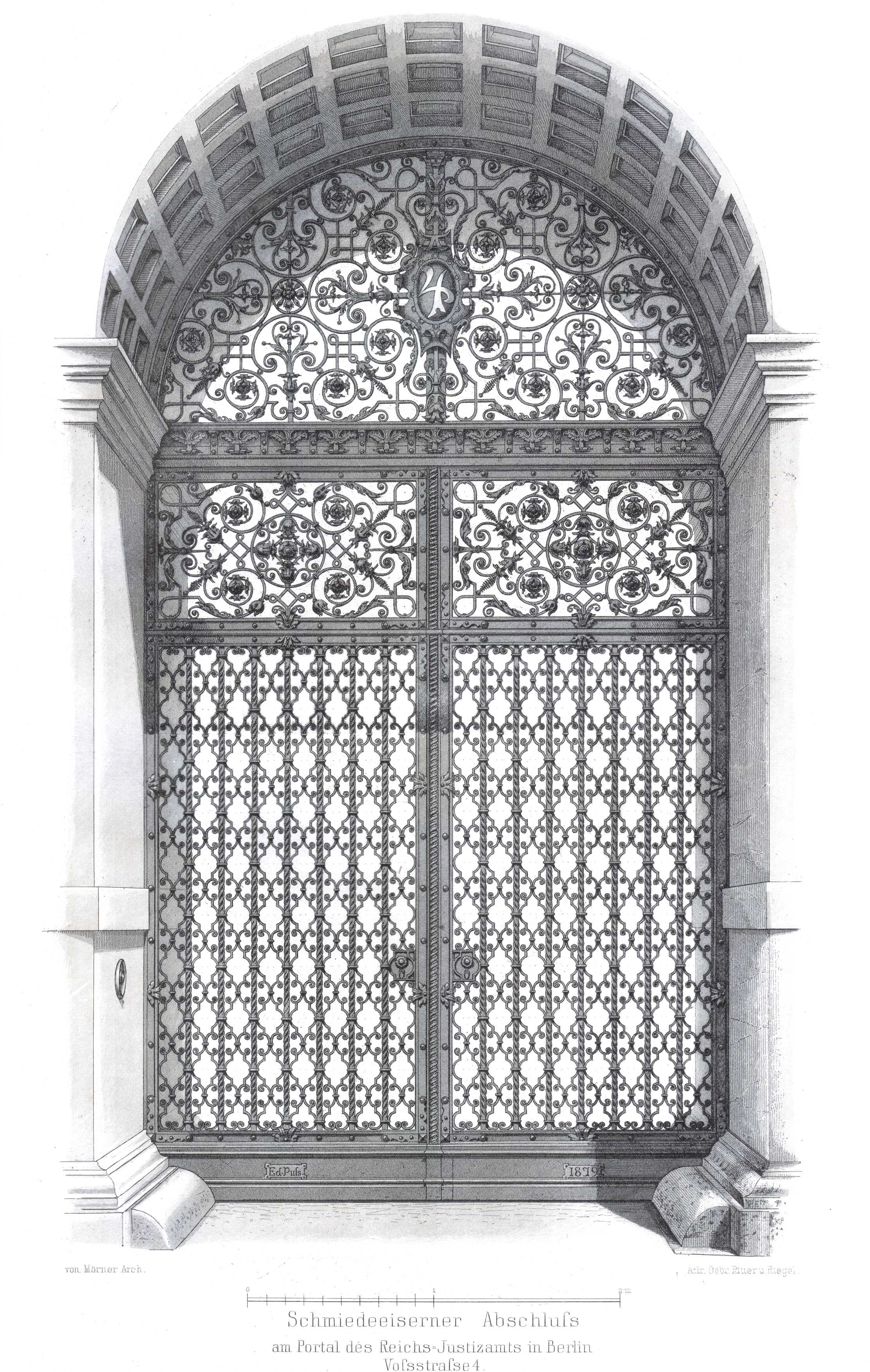 Berlin -Wrought iron gate of the Reichsjustizamt, Voßstraße 5